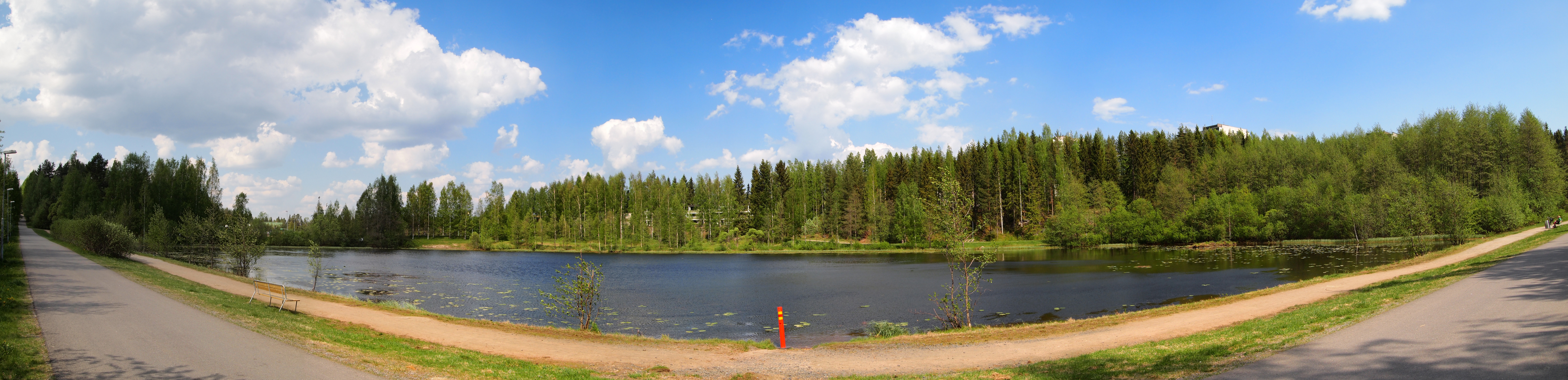 Pond Kotalampi in Jyväskylä. This photograph was taken with an Olympus E-PL1